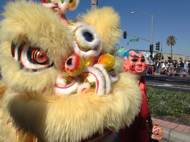 Vietnamese Unicorn and Ông Địa at the 2014 Tết Parade in Little Saigon, CA